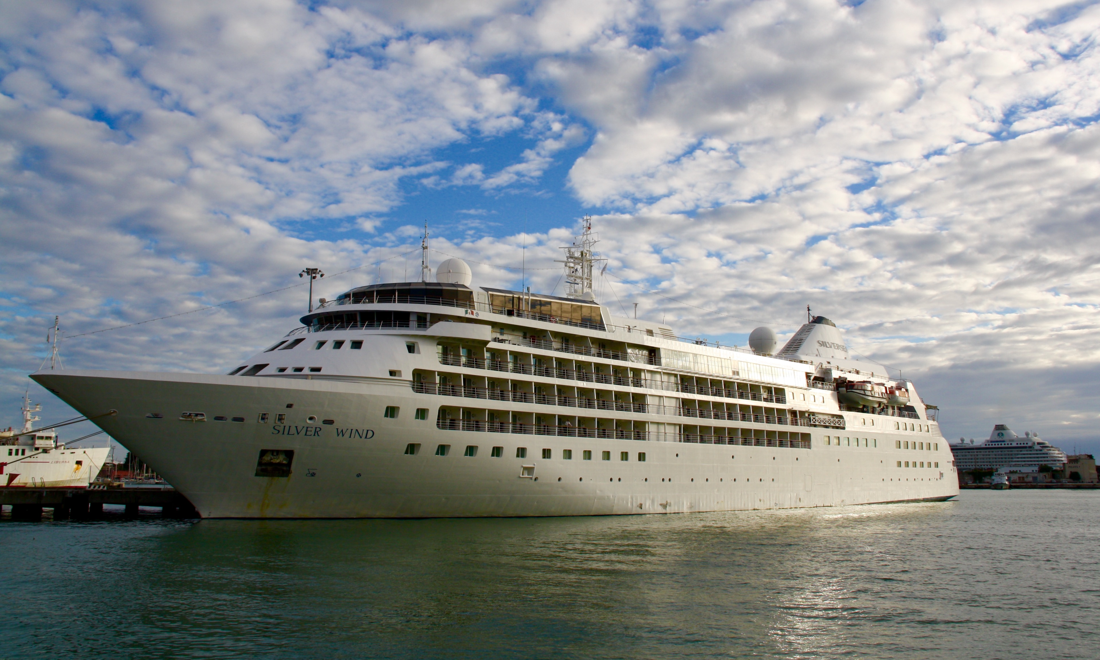 Shipowner: Silversea Cruises Operator: Siversea Cruises IMO: 8903935 MMSI: 308814000 Call sign: C6FG2 Type: Cruise ship Builder hull: Visentini Shipyard, Porto Viro, Italy Builder outfit: Mariotti Shipyard. Genoa, Italy Yard number: 776 Year of construction: 16 October 1993 Delivery date: 1995 Port of registry: Nassau, Bahamas Gross tonnage: 17,235 t Net tonnage: 5,350 t DWT: 1,790 t Length overall: 155.81 m Breadth: 21.42 m Draught: 5.7 m Main engine: 2 Wärtsilä type 6R46 diesel engines Engine power: 10.600 kW Speed: 17.5 knots Number of decks: 9 Passengers decks: 6 Passengers: 334 Crew: 212